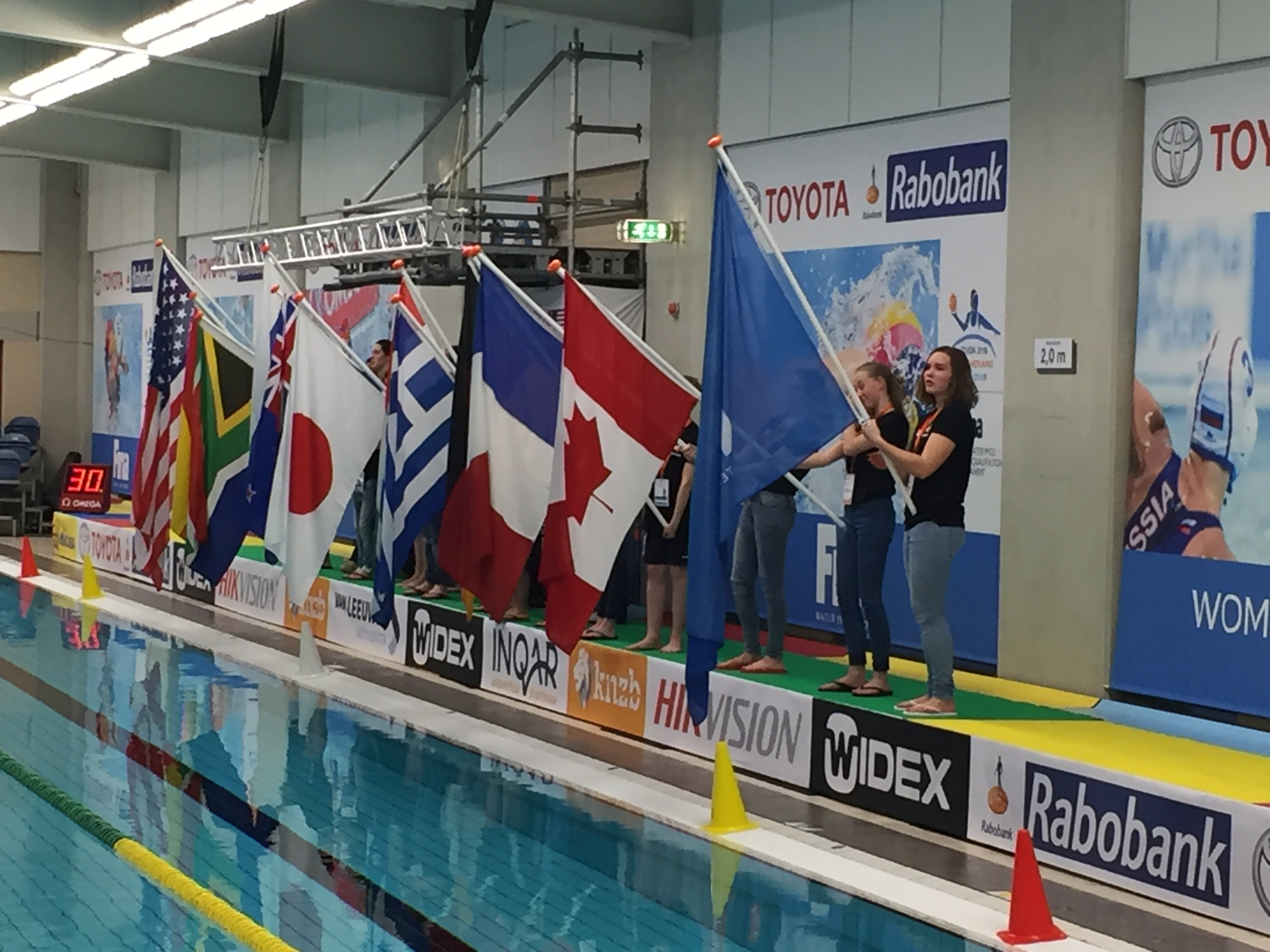 2016 Water Polo Olympic Qialification tournament stadium